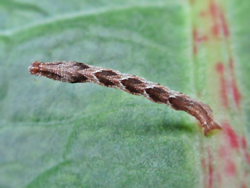 Timandra comae (Blood-vein) caterpillar, Elst (Gld), the Netherlands